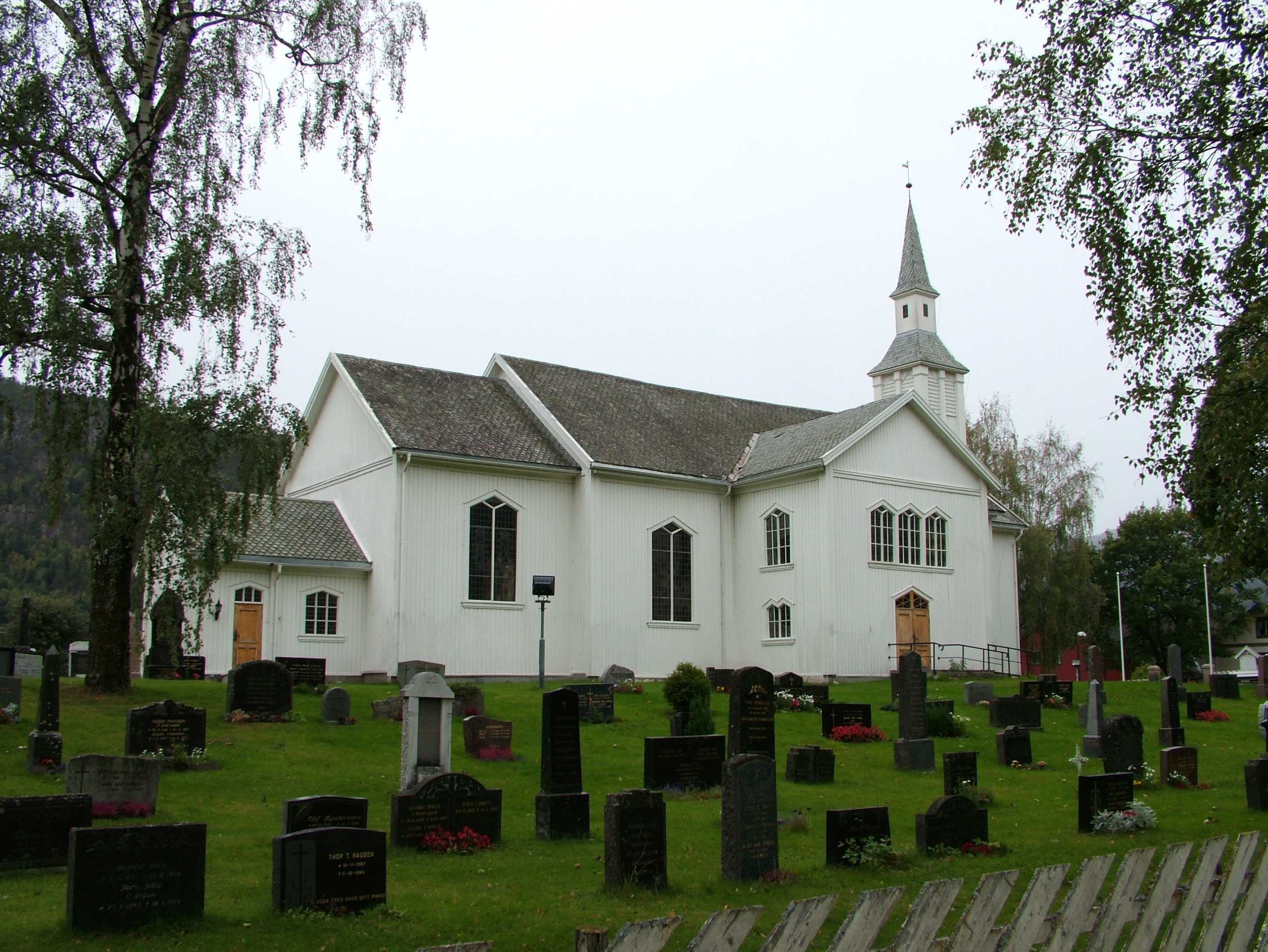 Flå in norway.